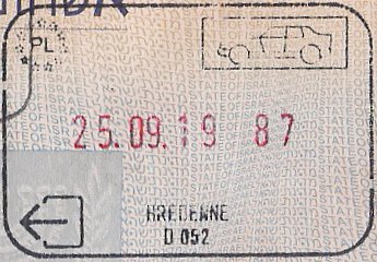 Polish passport stamp from Hrebenne.